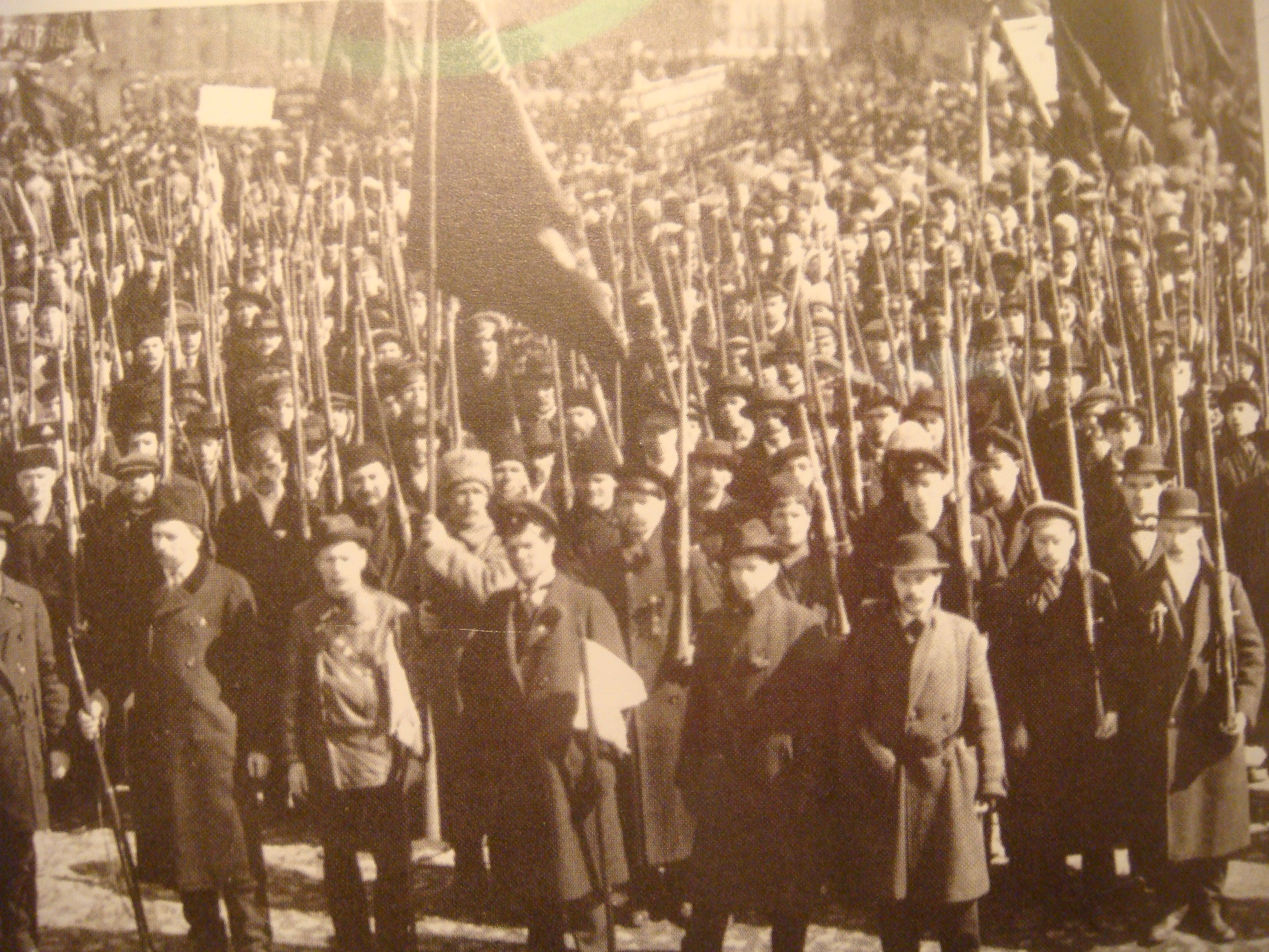 Members of one of the first Red Guard regiment. Petrograd, fall 1917.